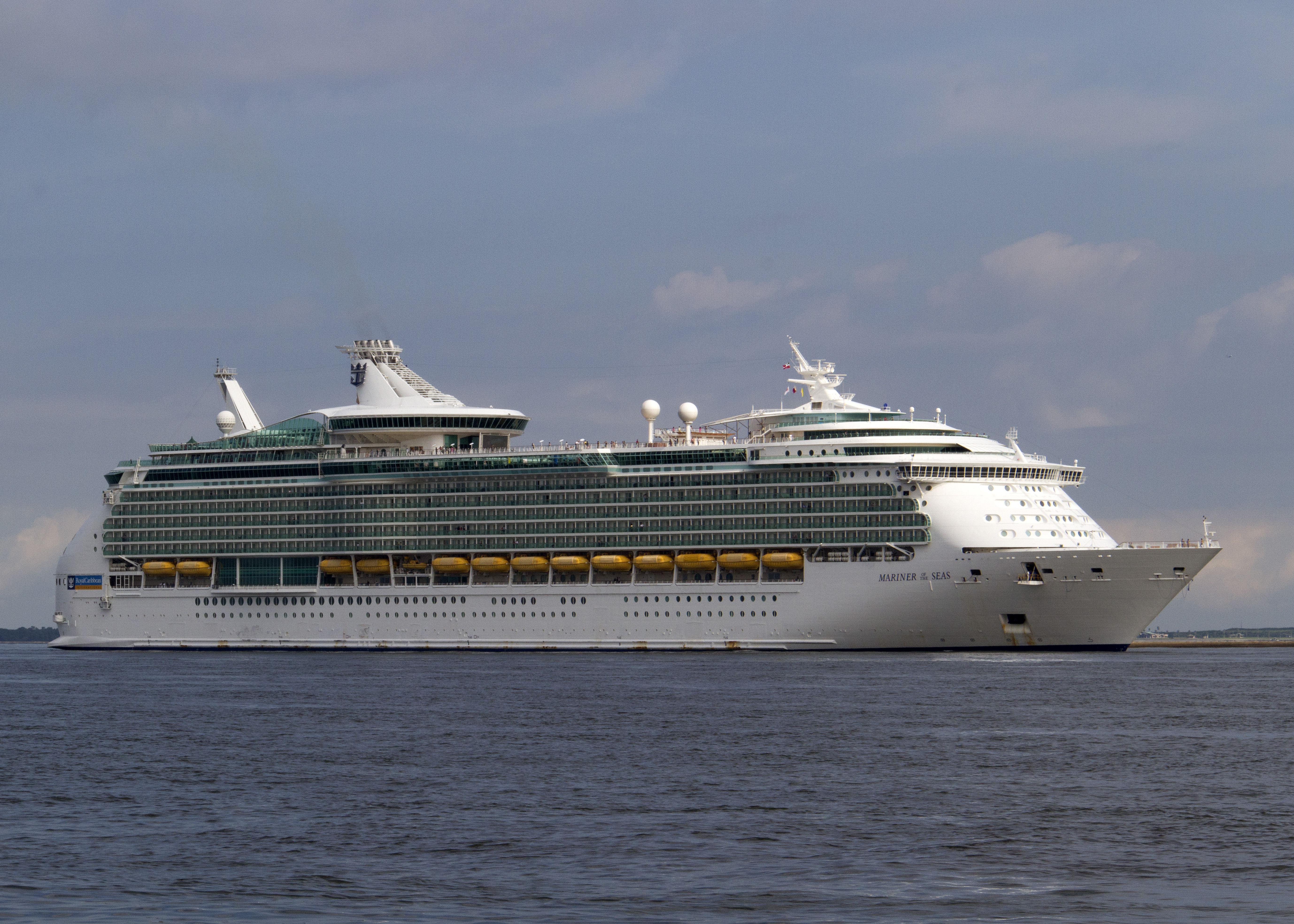 Mariner of the Seas at hakata port